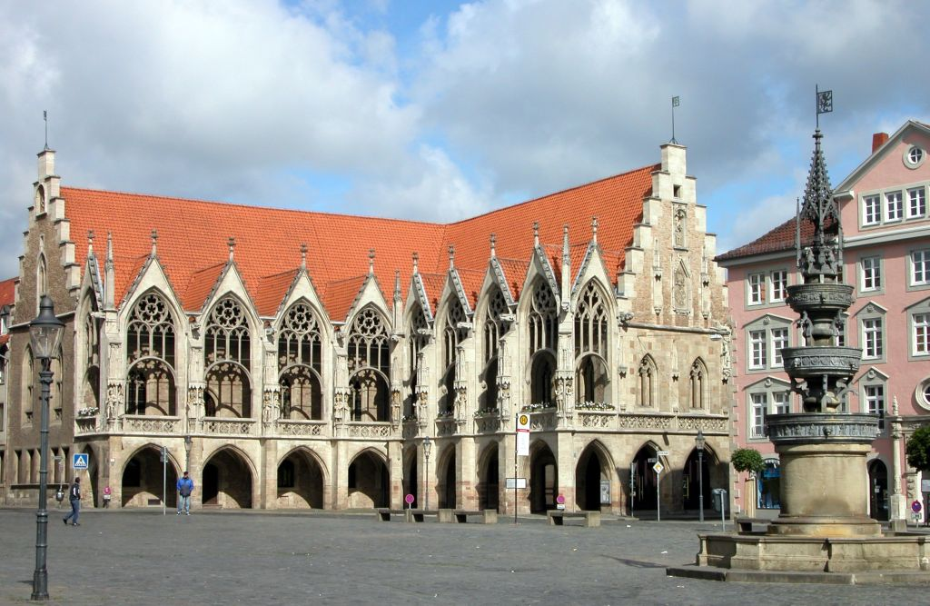 Brunswyck, Old Rathaus, and St Mary's fountain